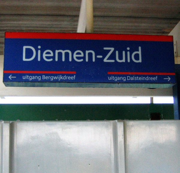 Metro Amsterdam sign for Diemen-Zuid, design by Gerard Unger from 1975.